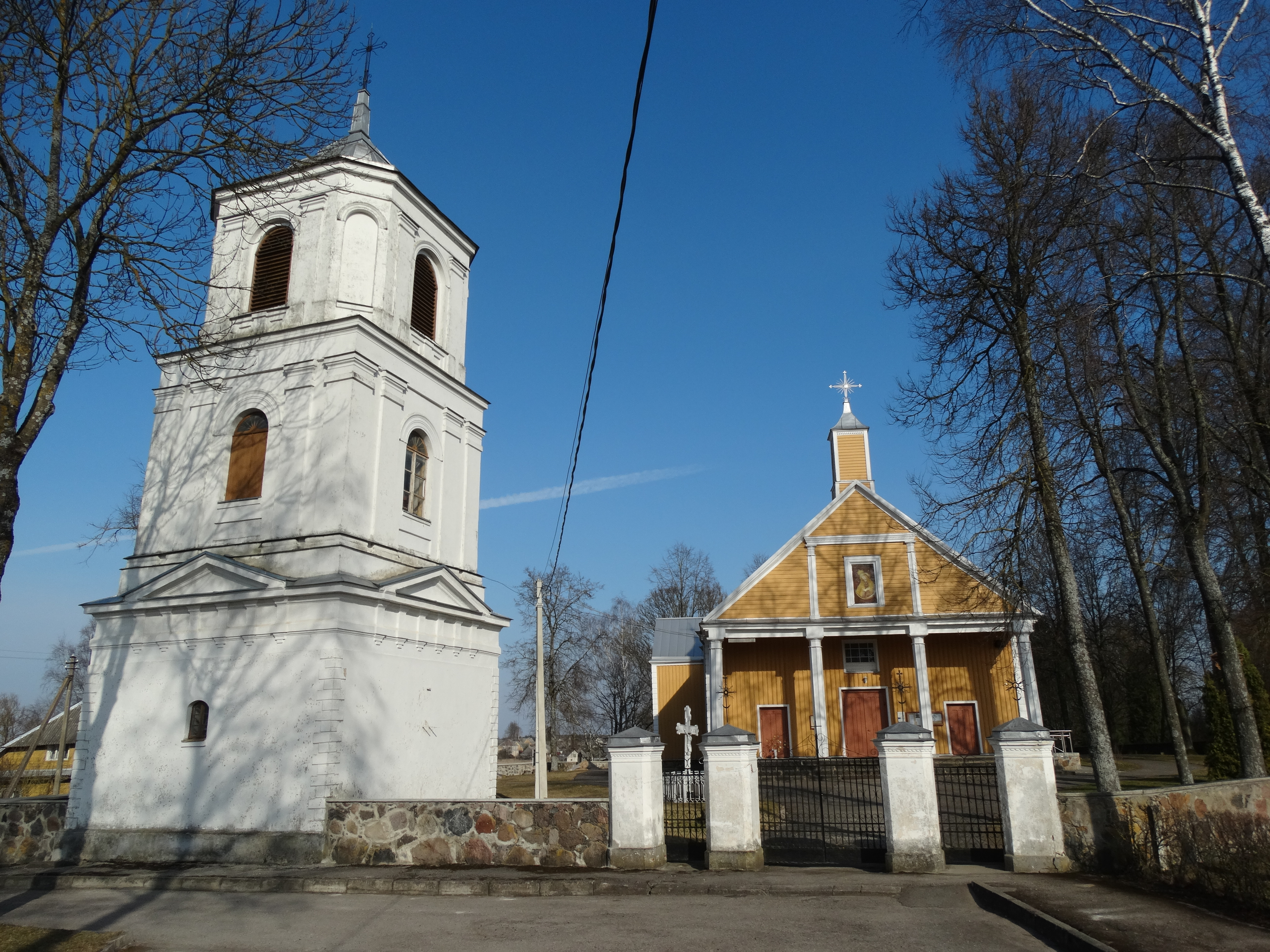 Church of the Assumption of The Holy Virgin Mary, Raguva, Panevėžys district, Lithuania